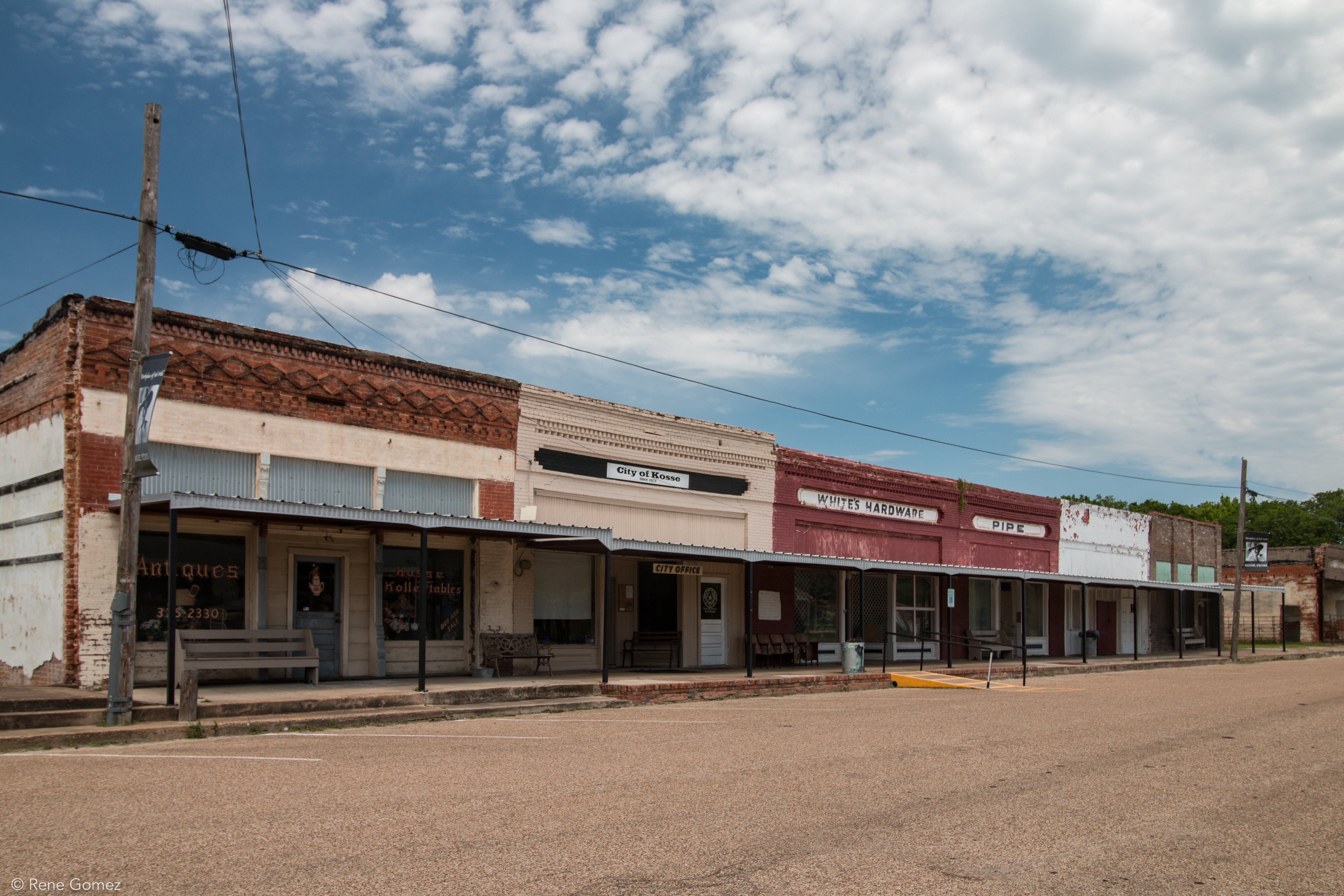 The town of Kosse, Texas